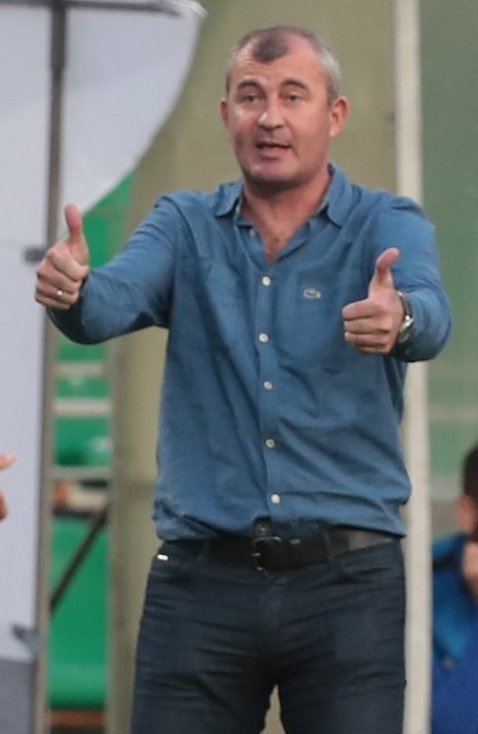 Murat Iskakov coaching FC Avangard Kursk in a game against FC Torpedo Moscow.